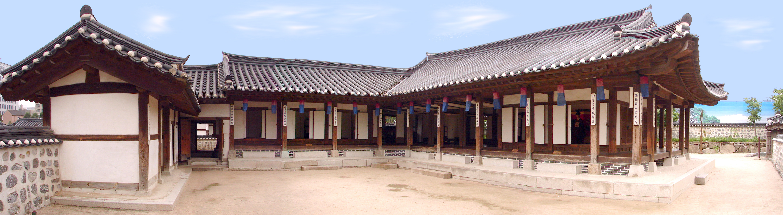 Traditional house in the the Namsangol Hanok Village, a restored Korean village located the central district of Seoul, where traditional houses have been preserved saving the original atmosphere of the area. A great effort has been made to accurately furnish each dwelling with era appropriate appointments at the village.